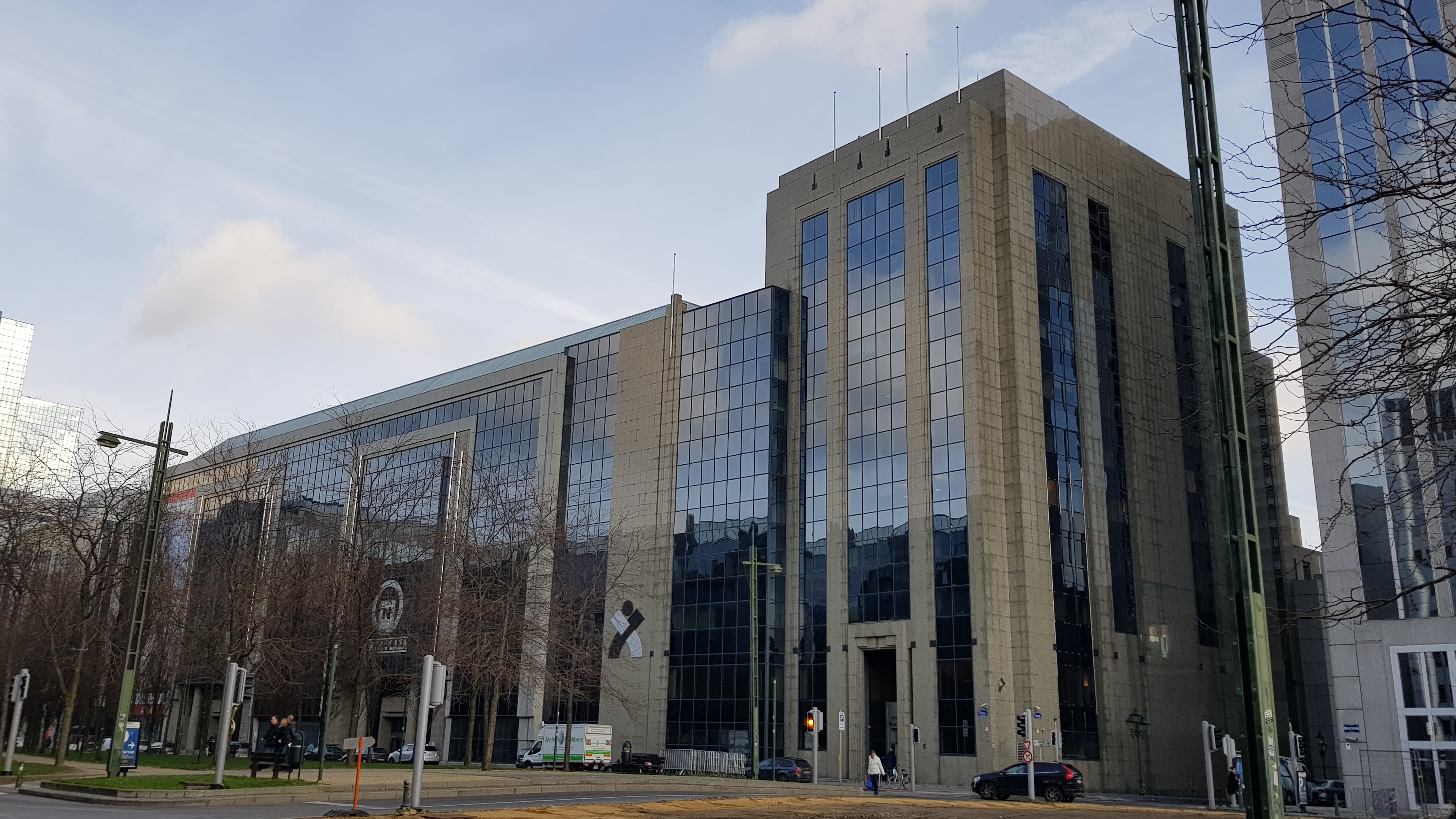 North Plaza, Saint-Josse-ten-Noode, Belgium